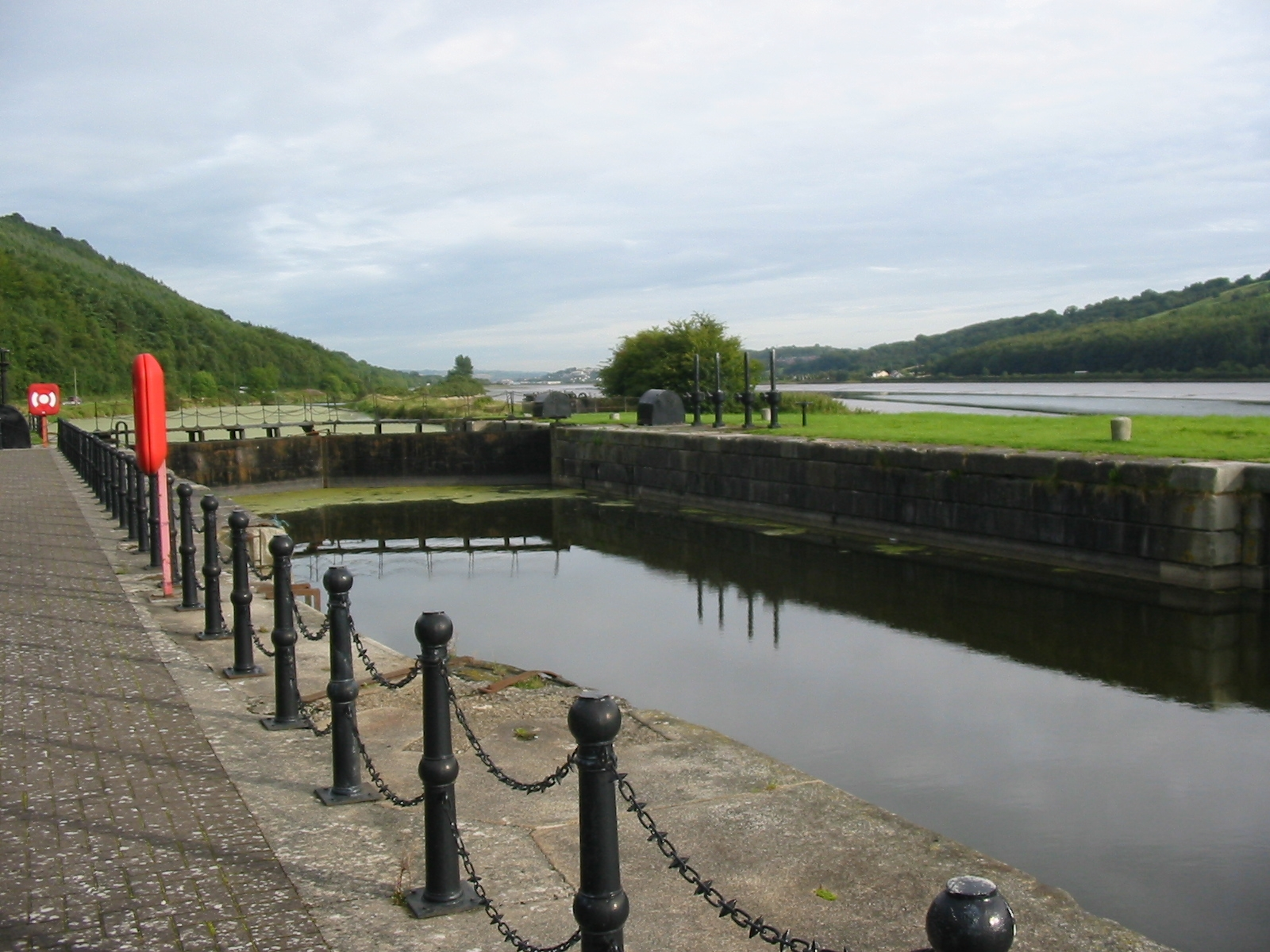 Victoria Lock, entrance to Newry canal with Carlingford Lough behind